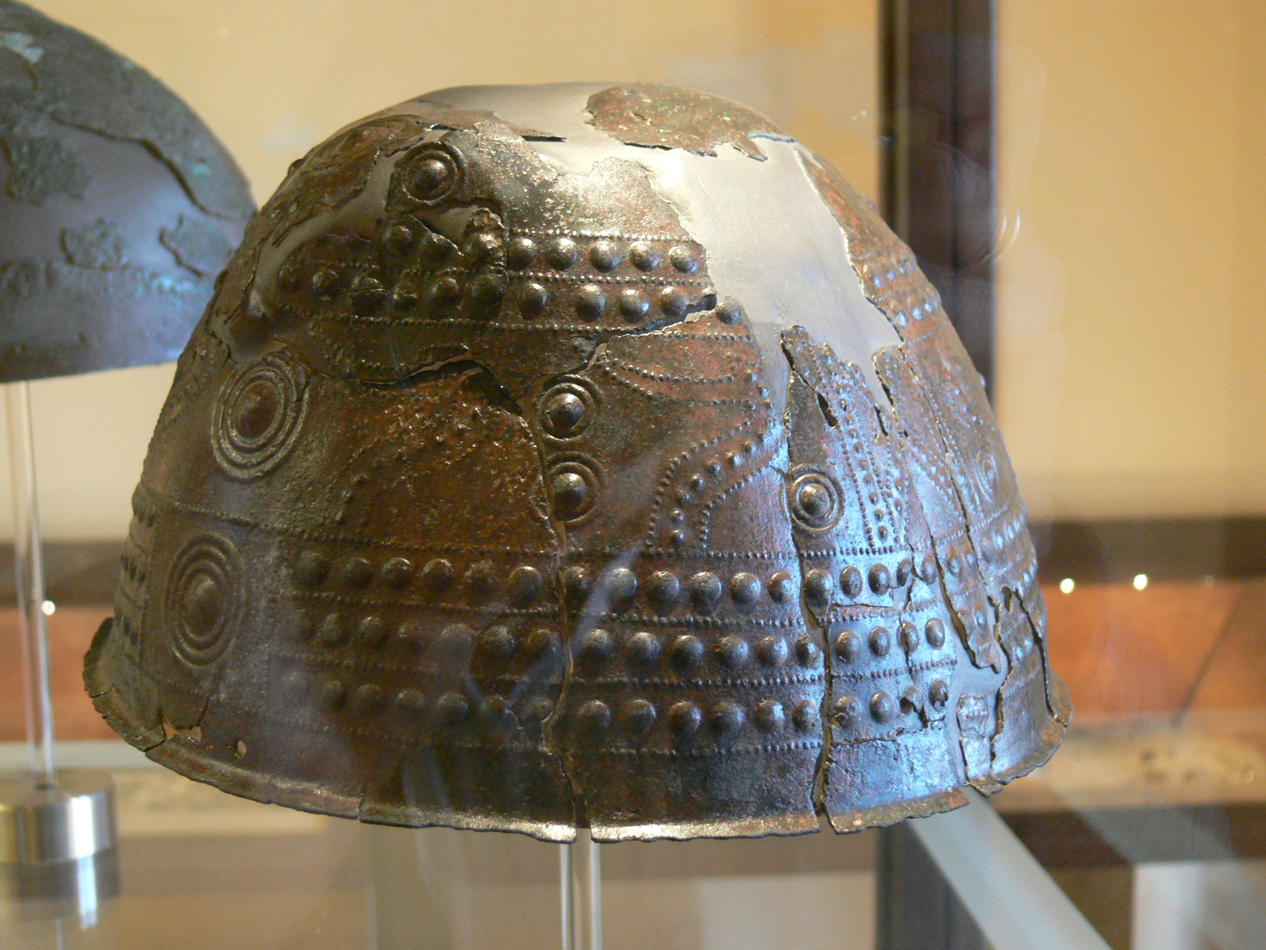 Archaeological museum ( Piombino ). Bronze age helmet.